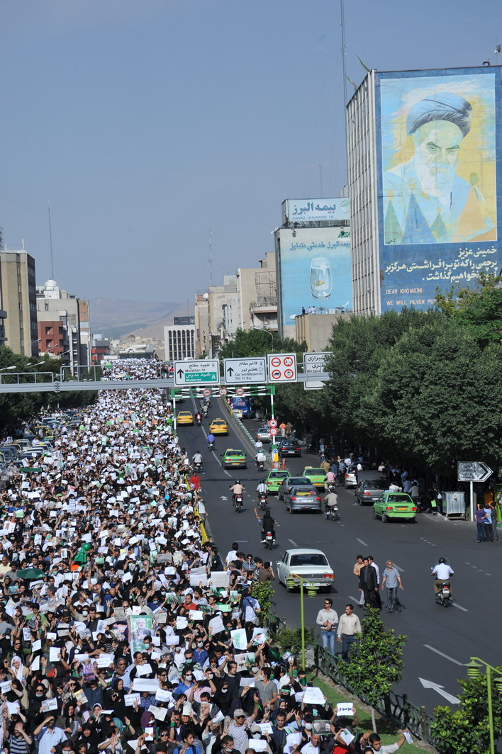 silent demonstration from Hafte tir Sq. to Enghelaagh Sq., Tehran, June 16 - part of the 2009 Iranian election protests